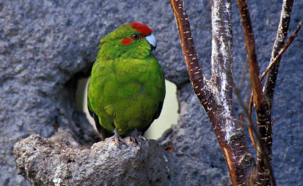 Red-crowned Parakeet (Cyanoramphus novaezelandiae) at Queens Park Aviary.